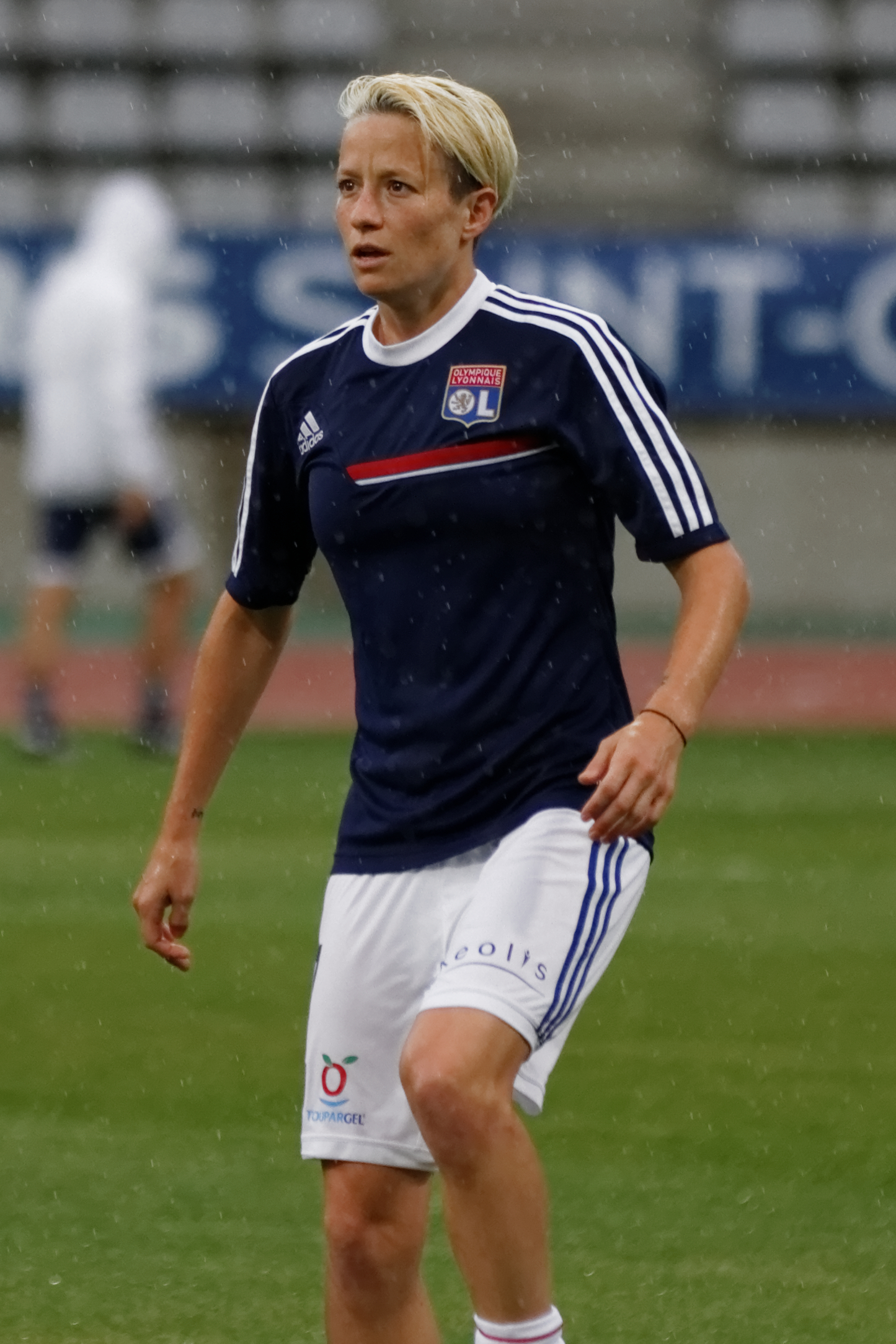 PSG-Lyon, September 29th, 2013.